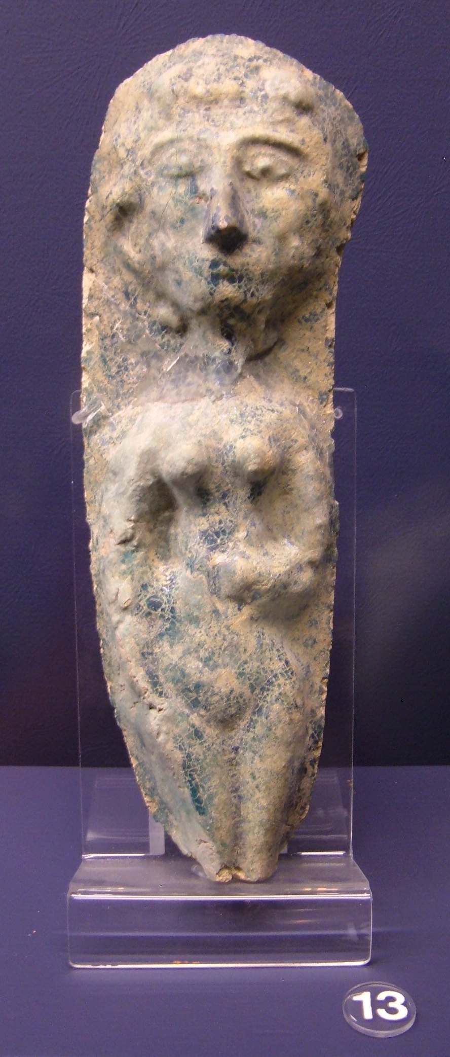 Glazed ceramic image of Ishtar from a Parthian coffin (ca. 247-228 CE) from Babylon, on display at the Rosicrucian Egyptian Museum in San Jose, California. RC 688